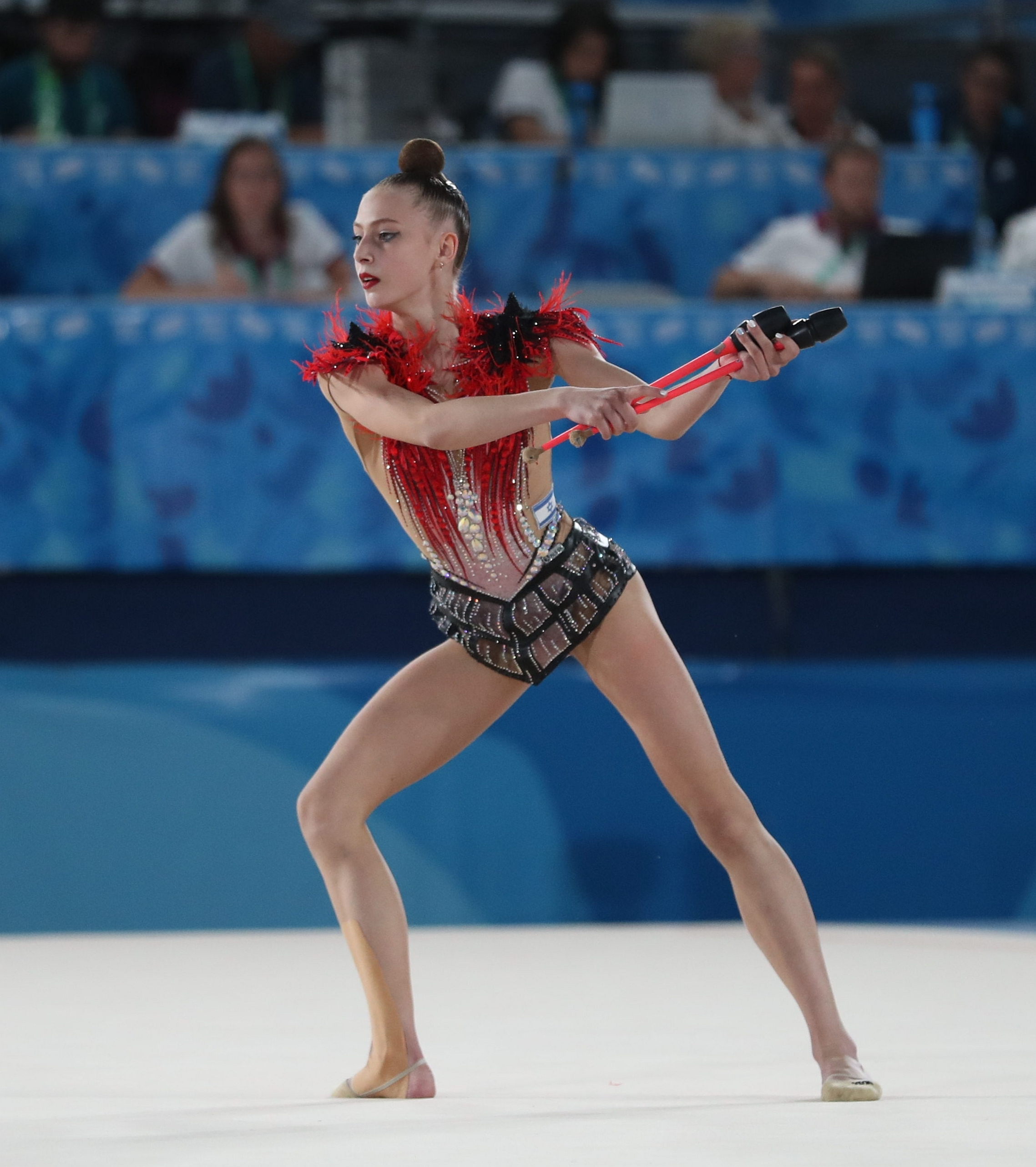 Clubs final of the girls' rhythmic gymnastics at the 2018 Summer Youth Olympics in Buenos Aires on 16 October 2018.